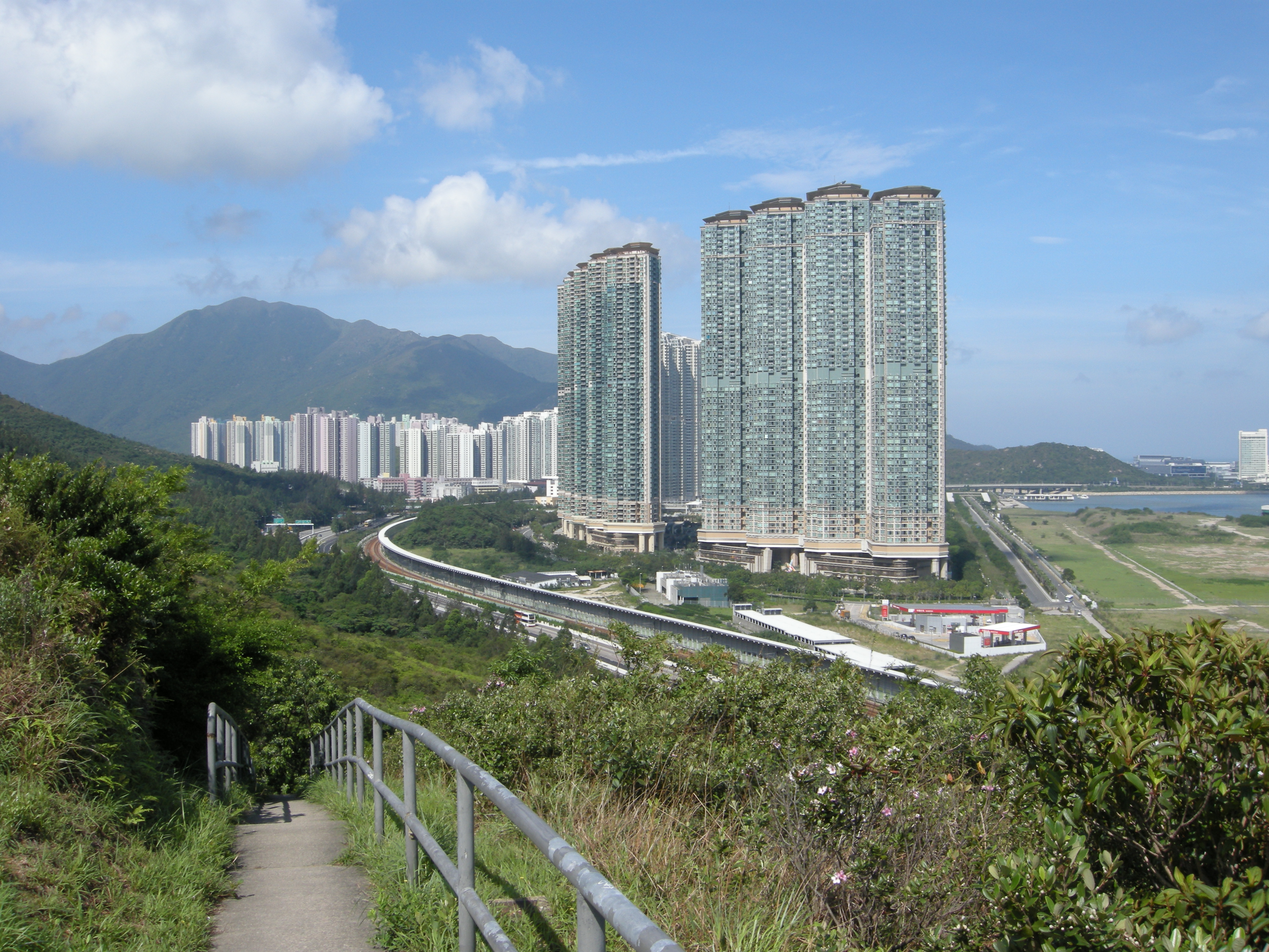 Tung Chung, May 2008